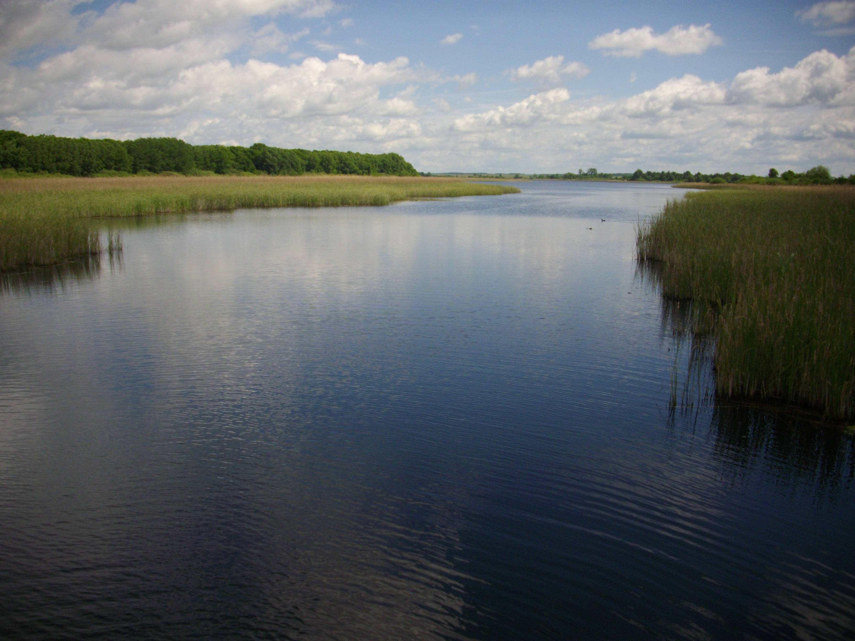 Pond of Lachaussée (Meuse, France)